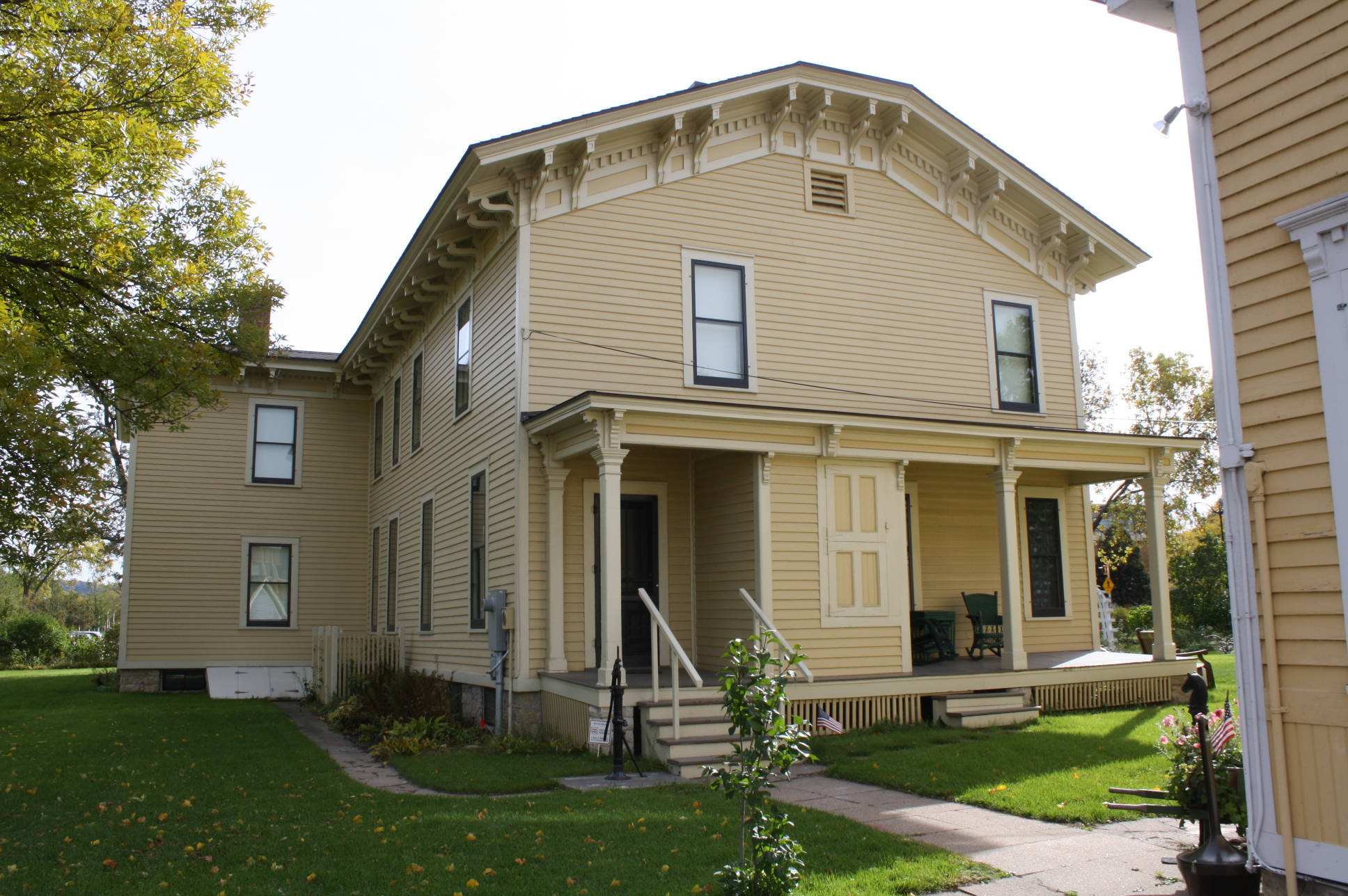 Looking at the rear of the Gideon C. Hixon House in downtown La Crosse, Wisconsin, listed on the National Register of Historic Places.